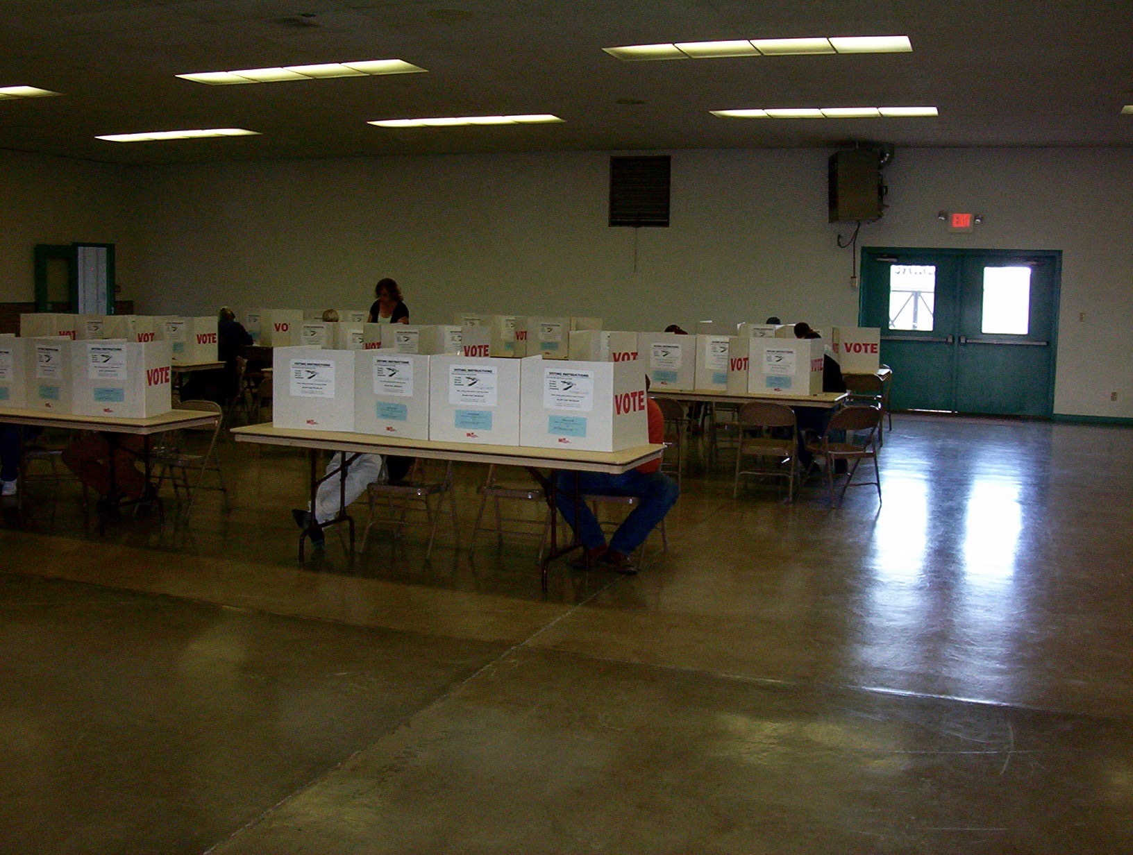 Polling booths at Albany County Fairgrounds Polling place, Laramie, Wyoming